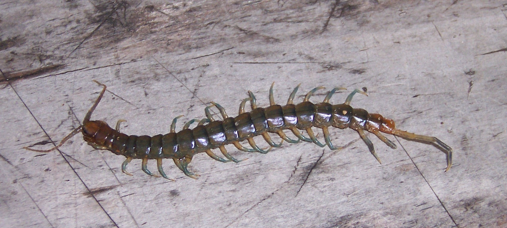 Scolopendra morsitans (Réunion island)